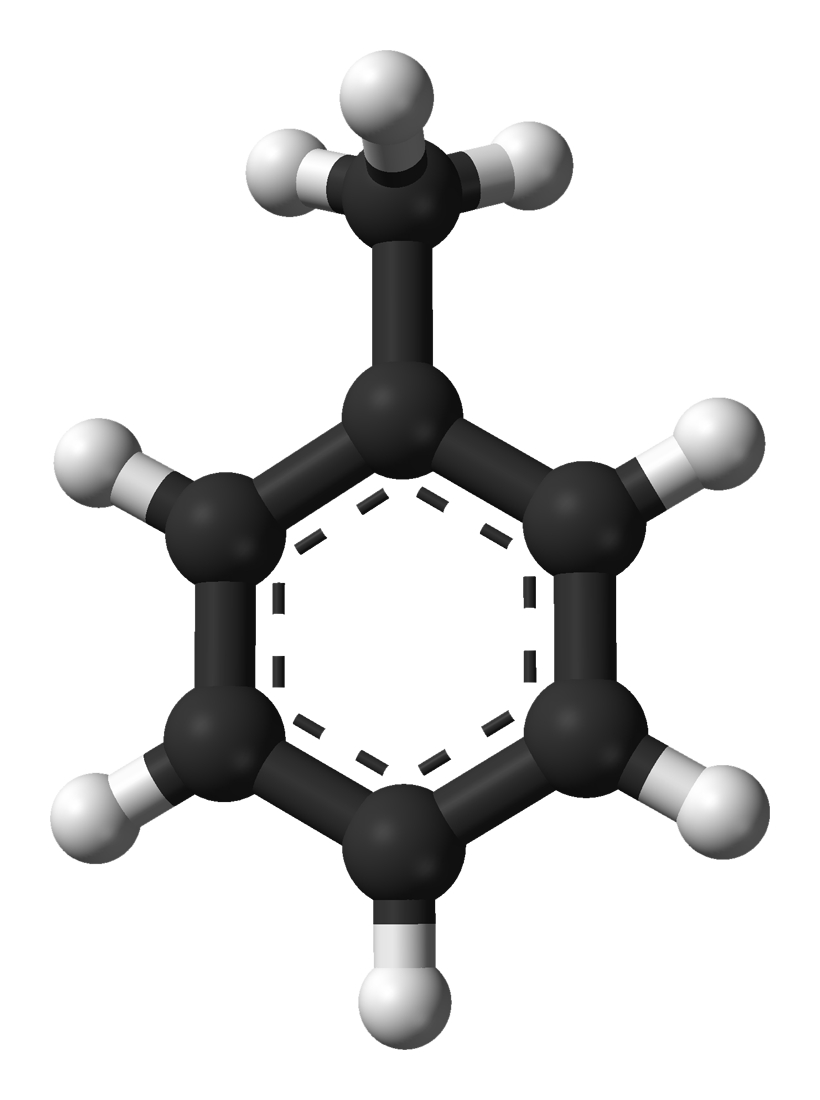 Ball-and-stick model of the toluene molecule, C7H8, as found in the crystal structure. X-ray crystallographic data from J. Chim. Phys. Phys.-Chim. Biol. (1977) 74, 68-73. Model constructed in CrystalMaker 8.1. Image generated in Accelrys DS Visualizer.